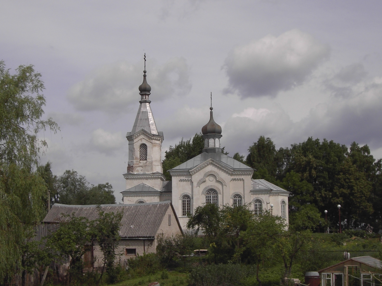 Old Believers' orthodox church of the Holy Trinity in Dūkštas, Lithuania